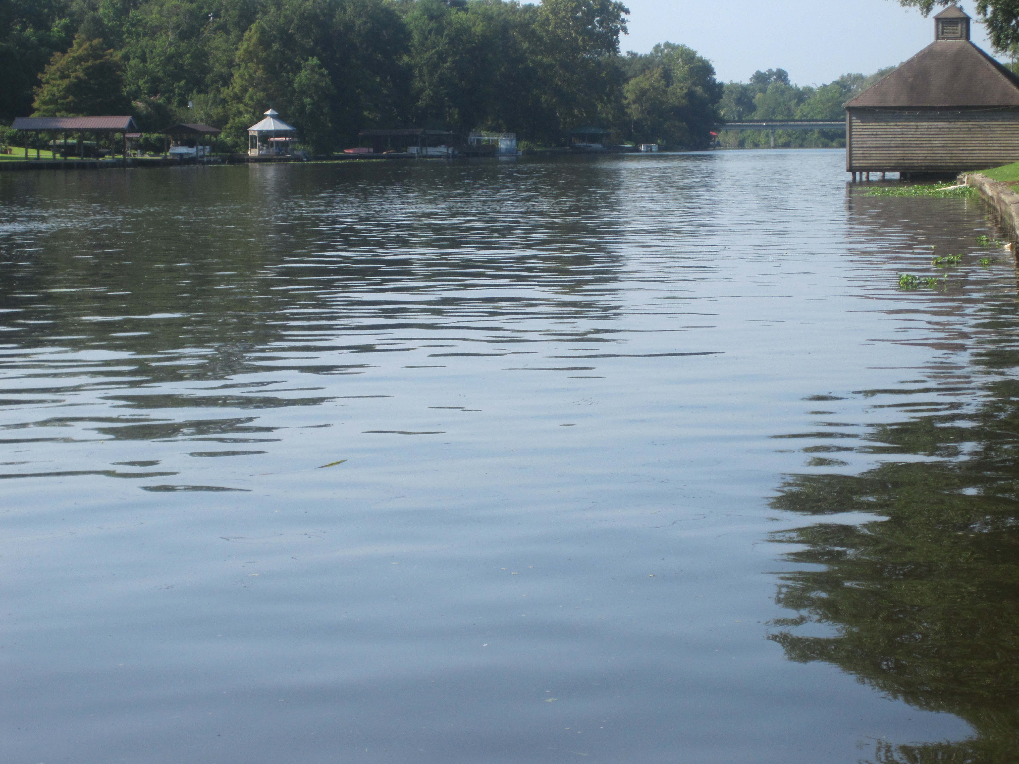 The Cane River in Natchitoches, Louisiana. In the NPS Cane River National Heritage Area, Natchitoches Parish.